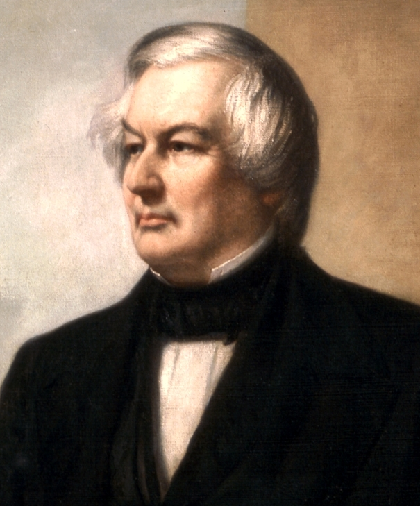 Portrait of Millard Fillmore.